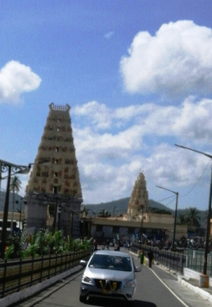 Malai Mahadeshwara Hills, Kollegal, Chamarajanagar district, Karnataka province, India.